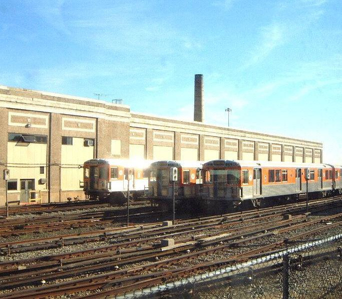 Fern Rock Transportation Center, Philadelphia PA. Photograph taken by user.